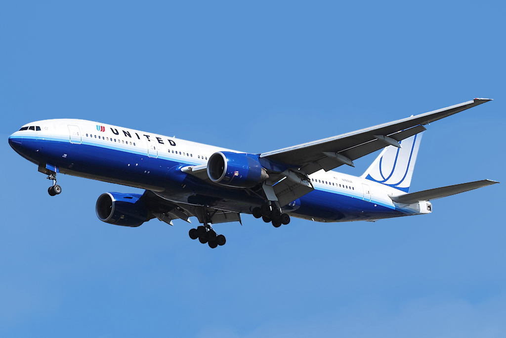 Short final for two-eight and barely a teenager. She turned 13 years old in August.